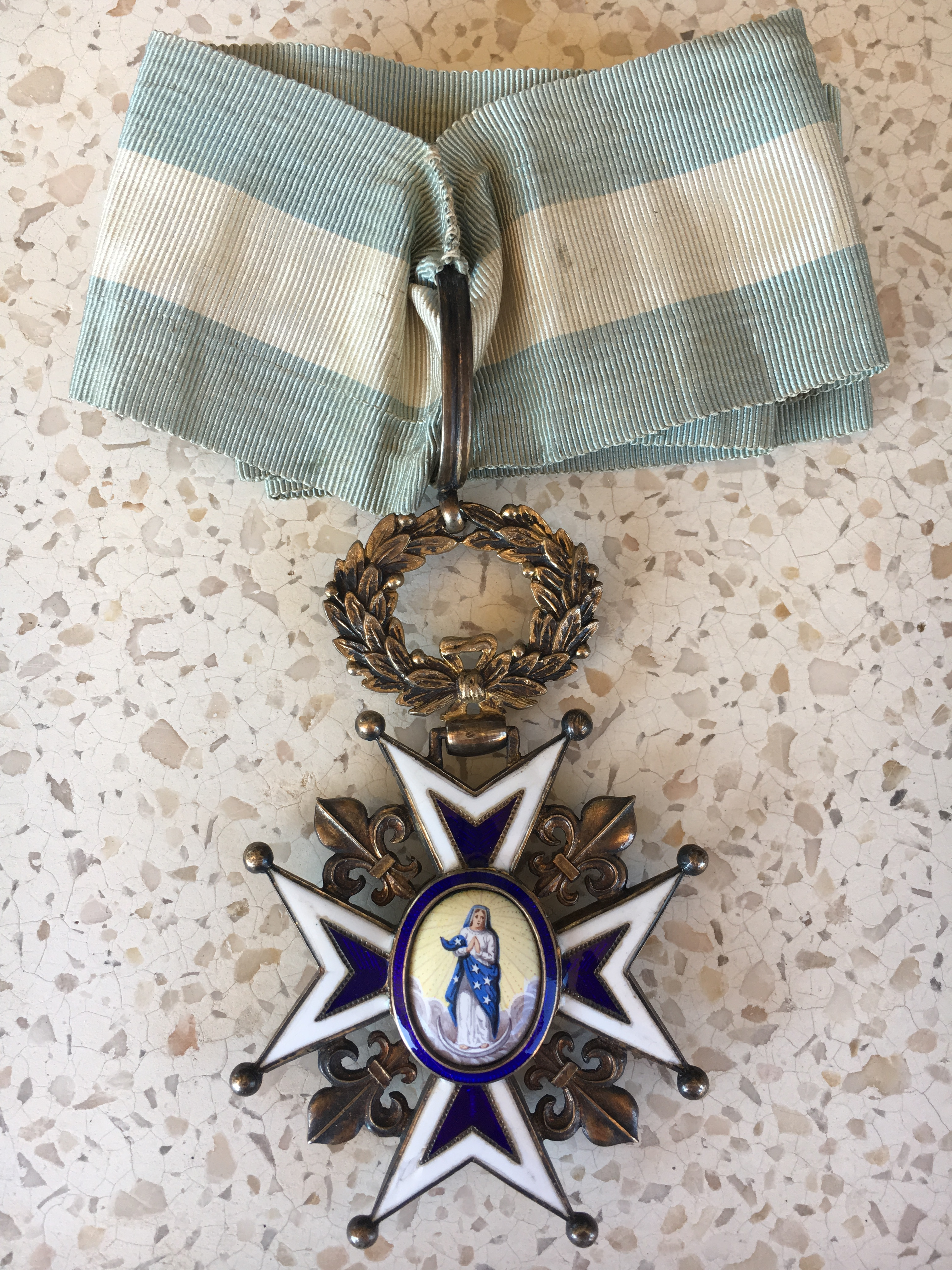 Commander Cross of the Order of Charles III, Kingdom of Spain. Isabel II period, XIXth Century. AEA Collections.